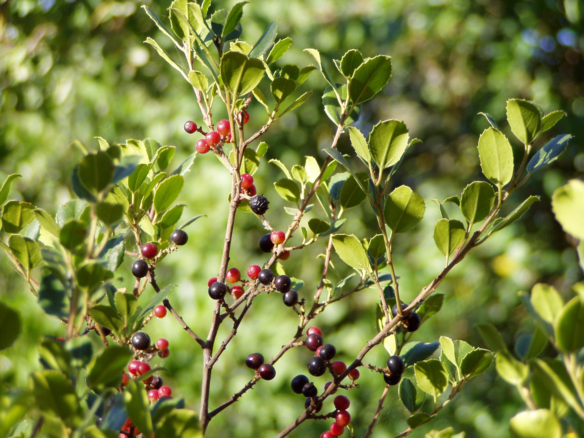 Mediterranean Buckthorn